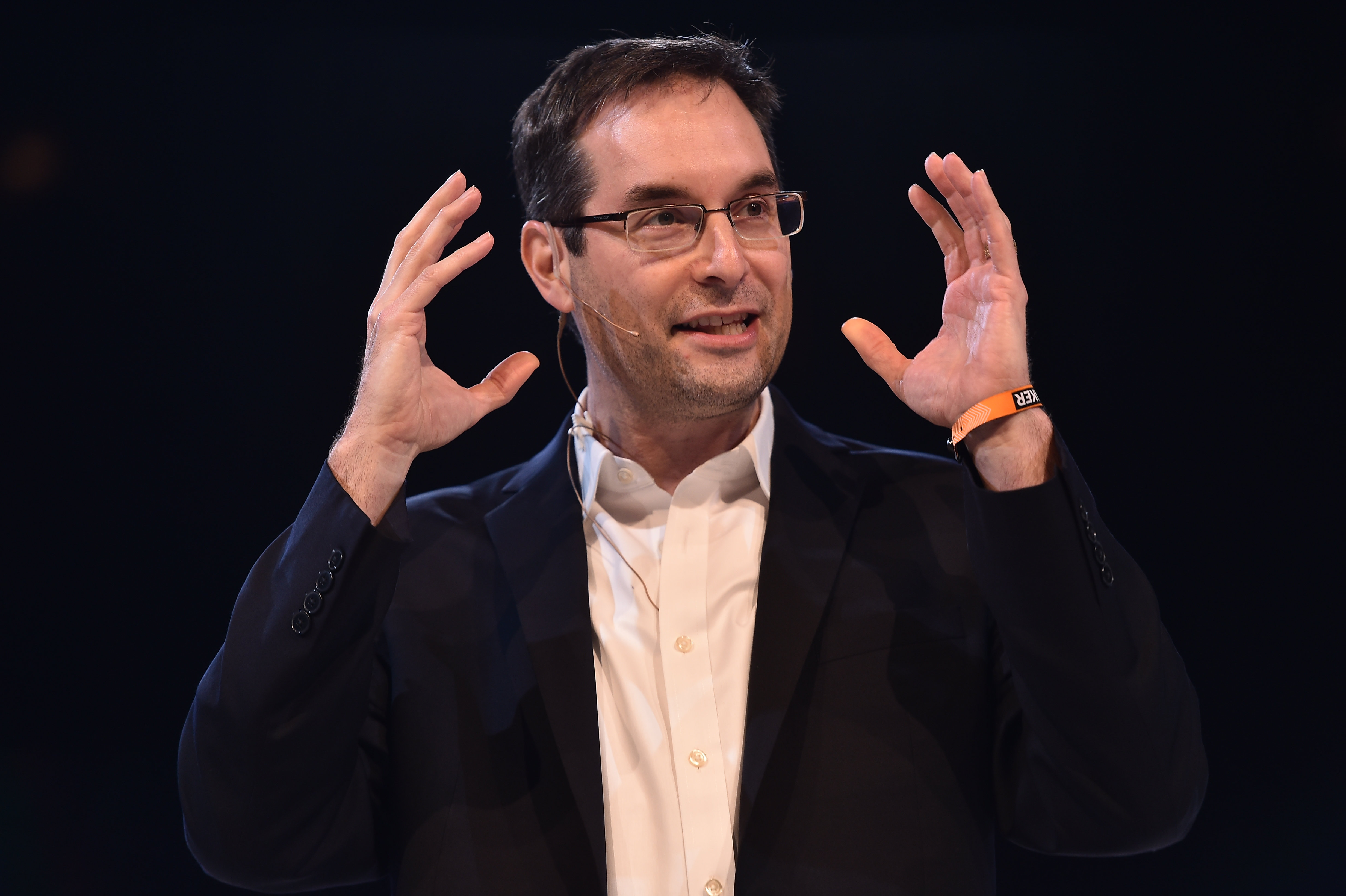 2 May 2018; David Siegel, CEO, Investopedia on the Growth Summit stage during day two of Collision 2018 at Ernest N. Morial Convention Center in New Orleans. Photo by Seb Daly/Collision via Sportsfile